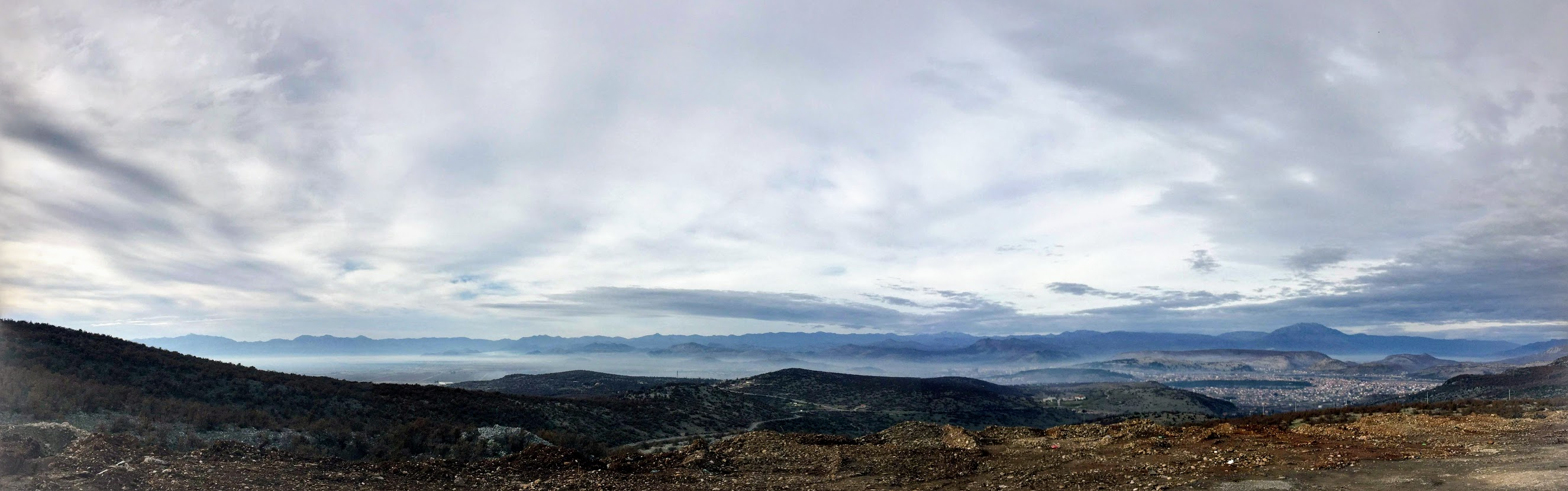 Pogled s Bila, Gornja Kržanja, Kuči. Vide se Skadarsko jezero i Podgorica.